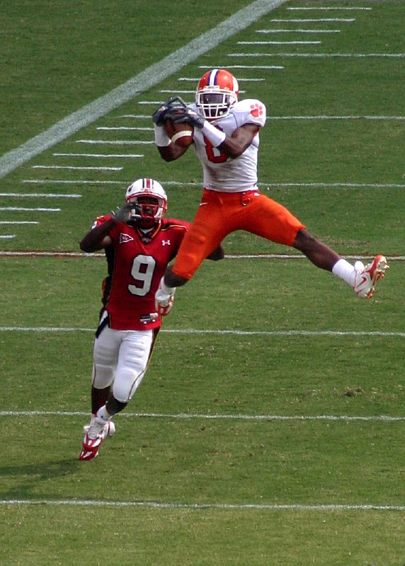 Interception by Tye Hill, now a starting cornerback on the St. Louis Rams.